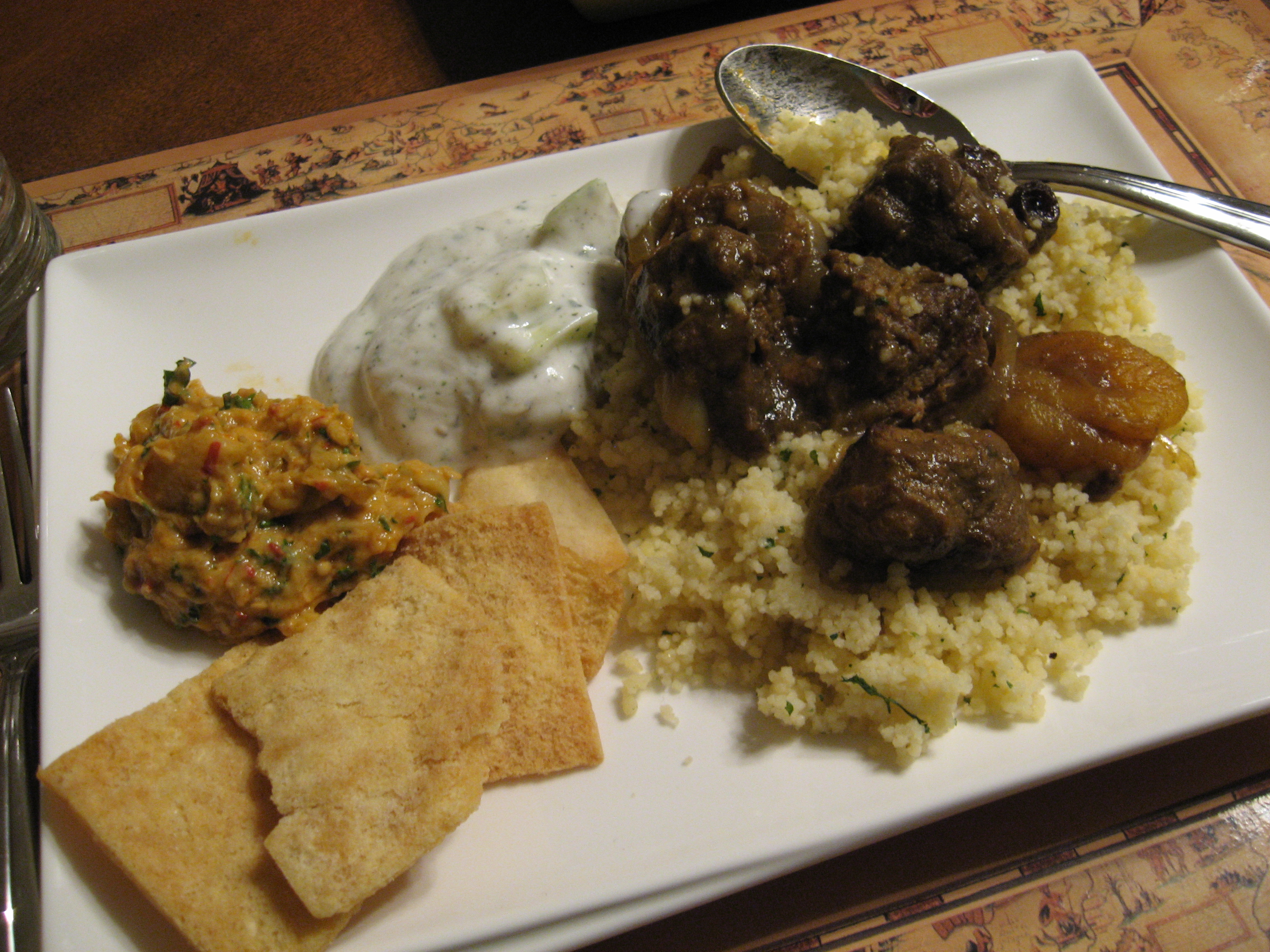 Moroccan Lamb Tagine with Honey and Apricots , garlic couscous, cucumber and yogurt dip, Spicy Eggplant and Yogurt Dip , and pita chips